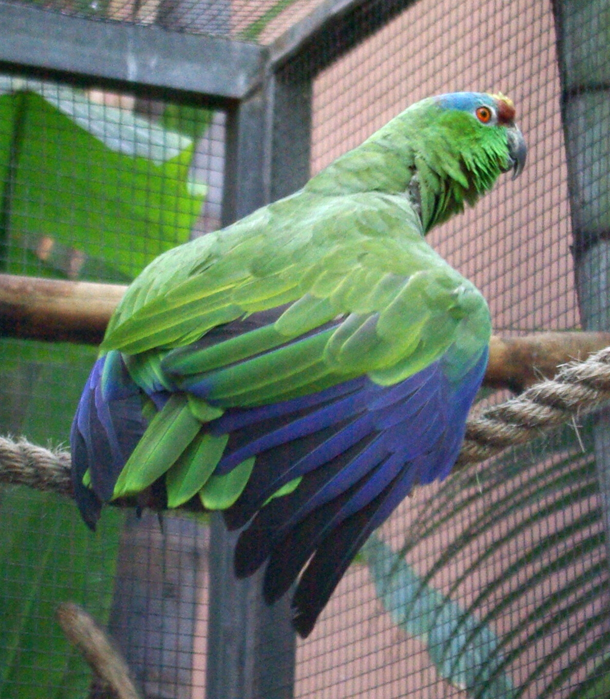 Festive Amazon at Loro Parque, Teneriffe Festive Amazon at Loro Parque, Teneriffe (Blaubartamazone, Amazone festive)